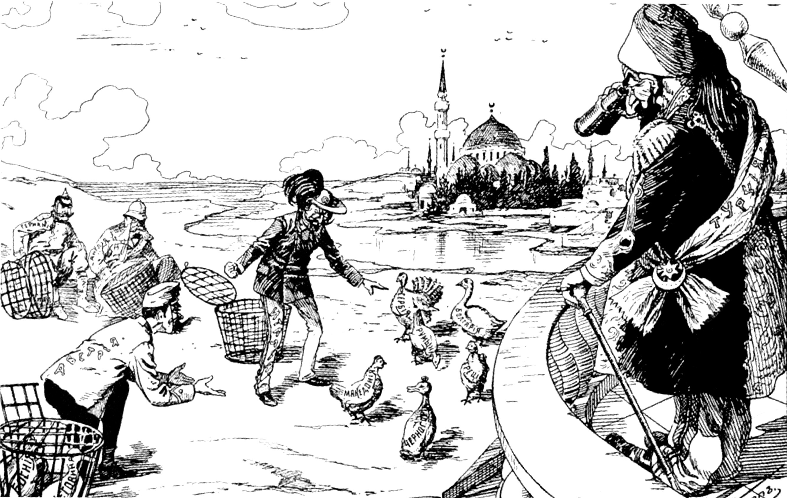 The Russian view on the Balkan problem: Italy and Austria (foreground left) lure the Balkan chicks (Greece, Bulgaria, Macedonia, Romania, Serbia, Montenegro) into their traps. Bosnia and Herzegovina are already in the Austrian trap. Sultan Abdul Hamid II struggles to see the point. England and Germany hurry to join the party.